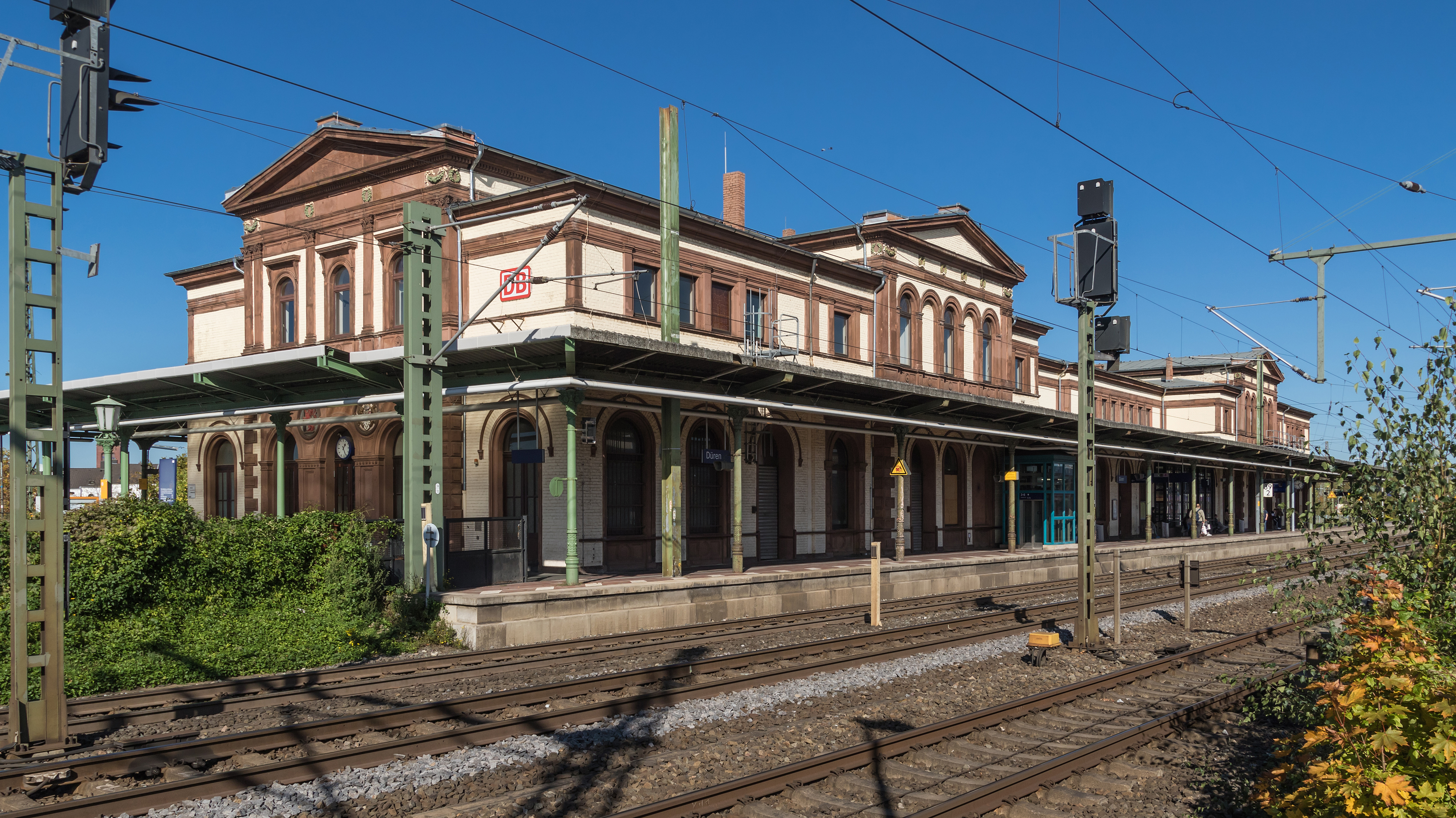 Train station in Düren (Germany)